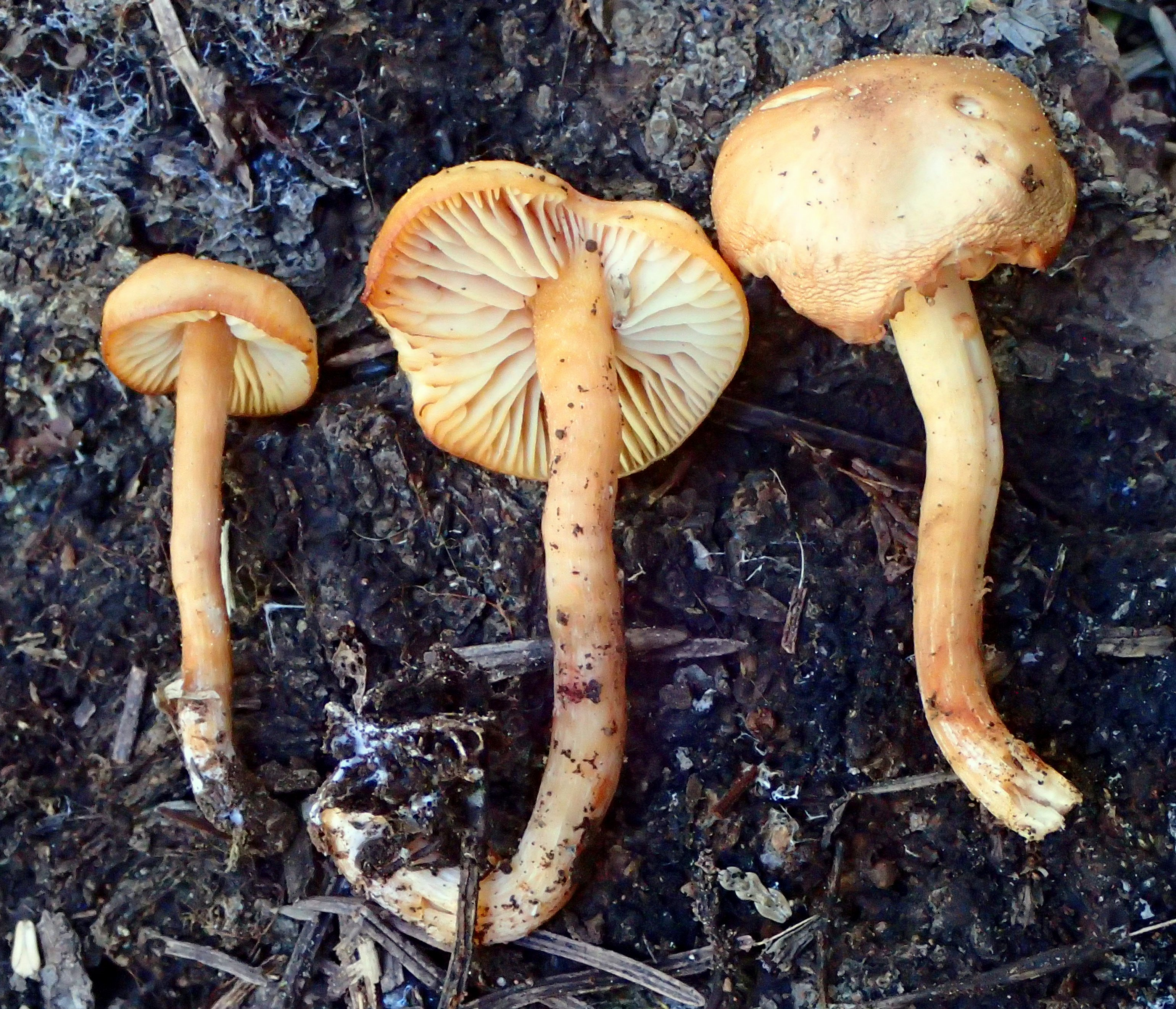 Rhodophana nitellina (Fr.) Papetti Image location: Jenkinson Lake, El Dorado Co., California, USA Growing on woody debris in Mixed woods. Caps up to 2.5 cm across. Odor farinaceous. Could not get a spore print but spores appeared to be light colored to hyaline in KOH. Few spores measured ~ 8.0-9.0 X 5.0-6.0 microns, warted. Recognized by sight For more information about this, see the observation page at Mushroom Observer.